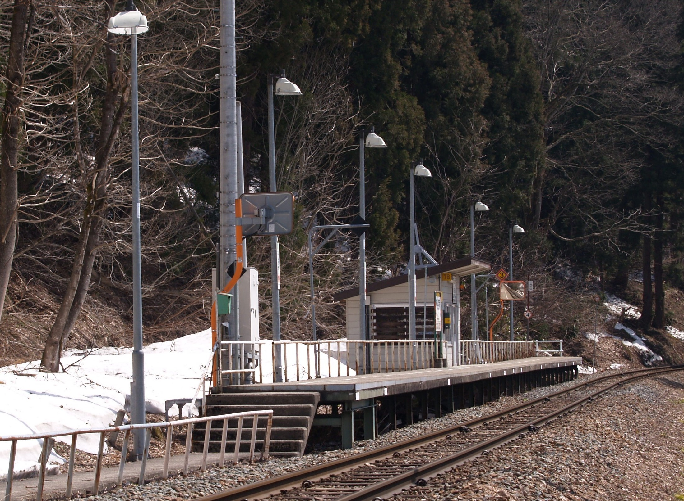 Ashidaki Station platform